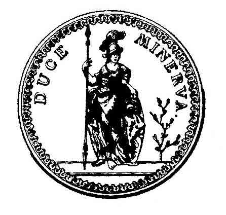 Sigillum maior Senatus "Duce Minerva" (our leader is Minerva)